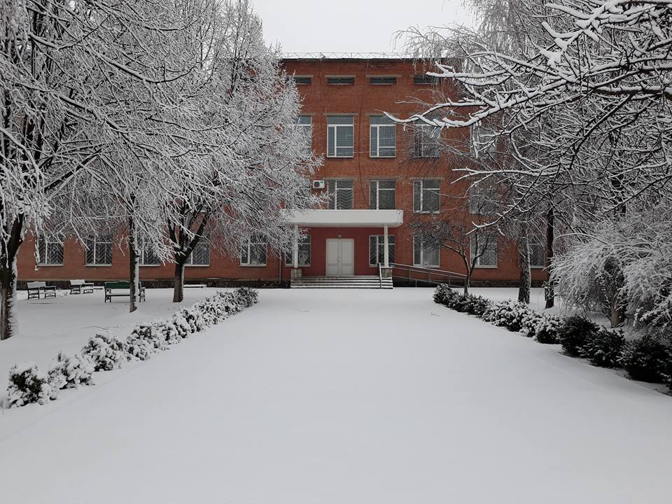 Приміщення спеціальної школи для дітей з порушенням слуху, яке збудовано в 1978 році. Школа заснована як Полтавський дитячий будинок для глухонімих у 1921 році.